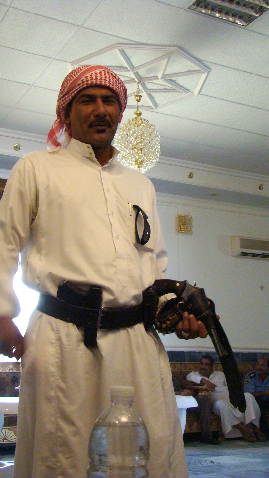 Sattar's Bodyguard who was killed during the assassination of Sheik Sattar